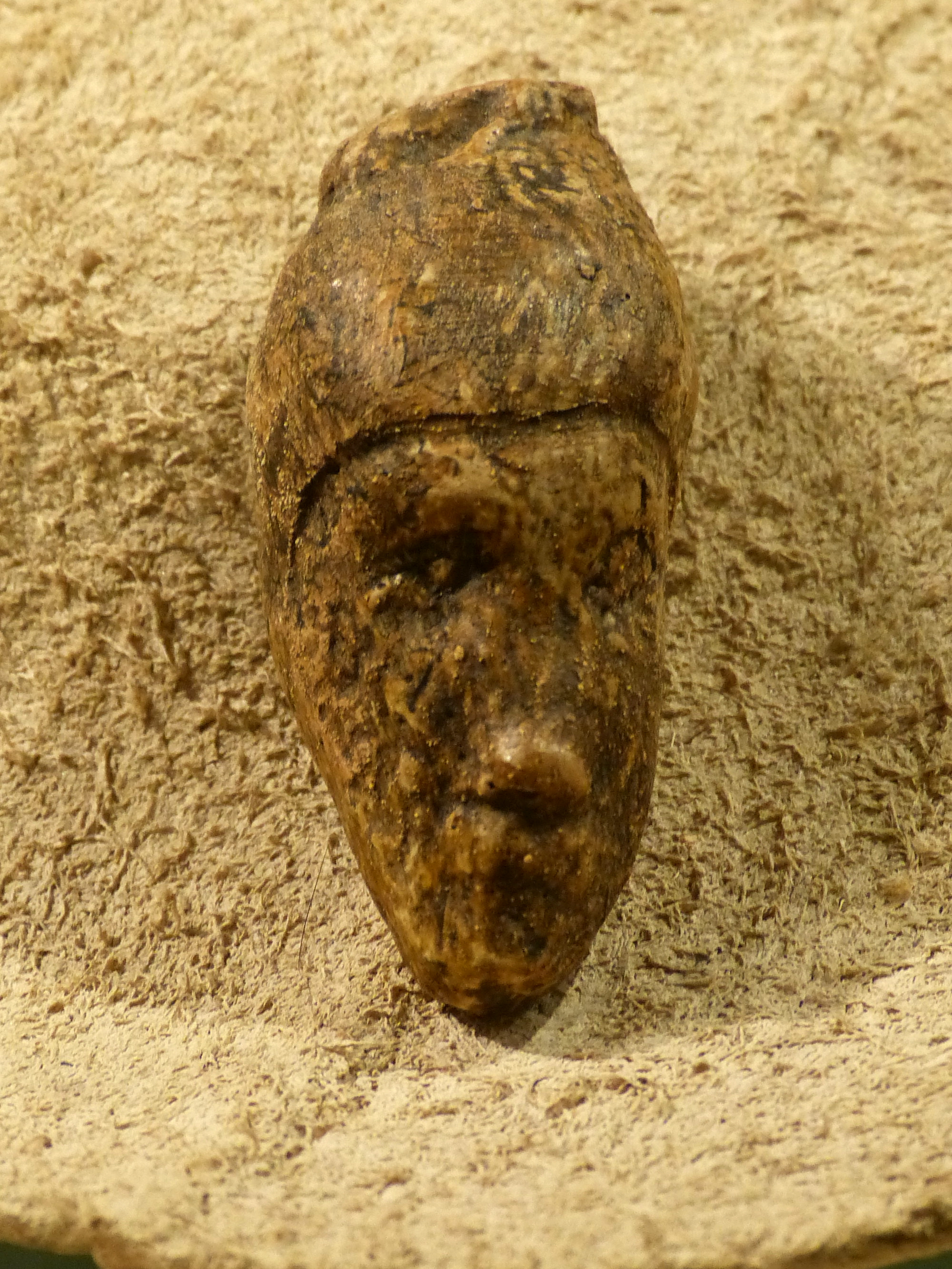 Eggenburg ( Lower Austria ). Krahuletz-Museum: Paleolithic female head ( replica ), from Dolni Vestonice, Czech Republic.